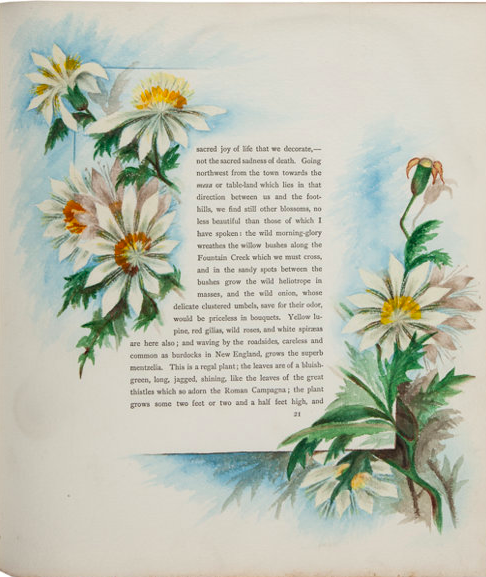 Helen [Hunt] Jackson, illustrated by Alice A. Stewart. The Procession of Flowers in Colorado. Illustrated in water colors by Alice A. Stewart. Boston: Roberts Brothers, 1886.